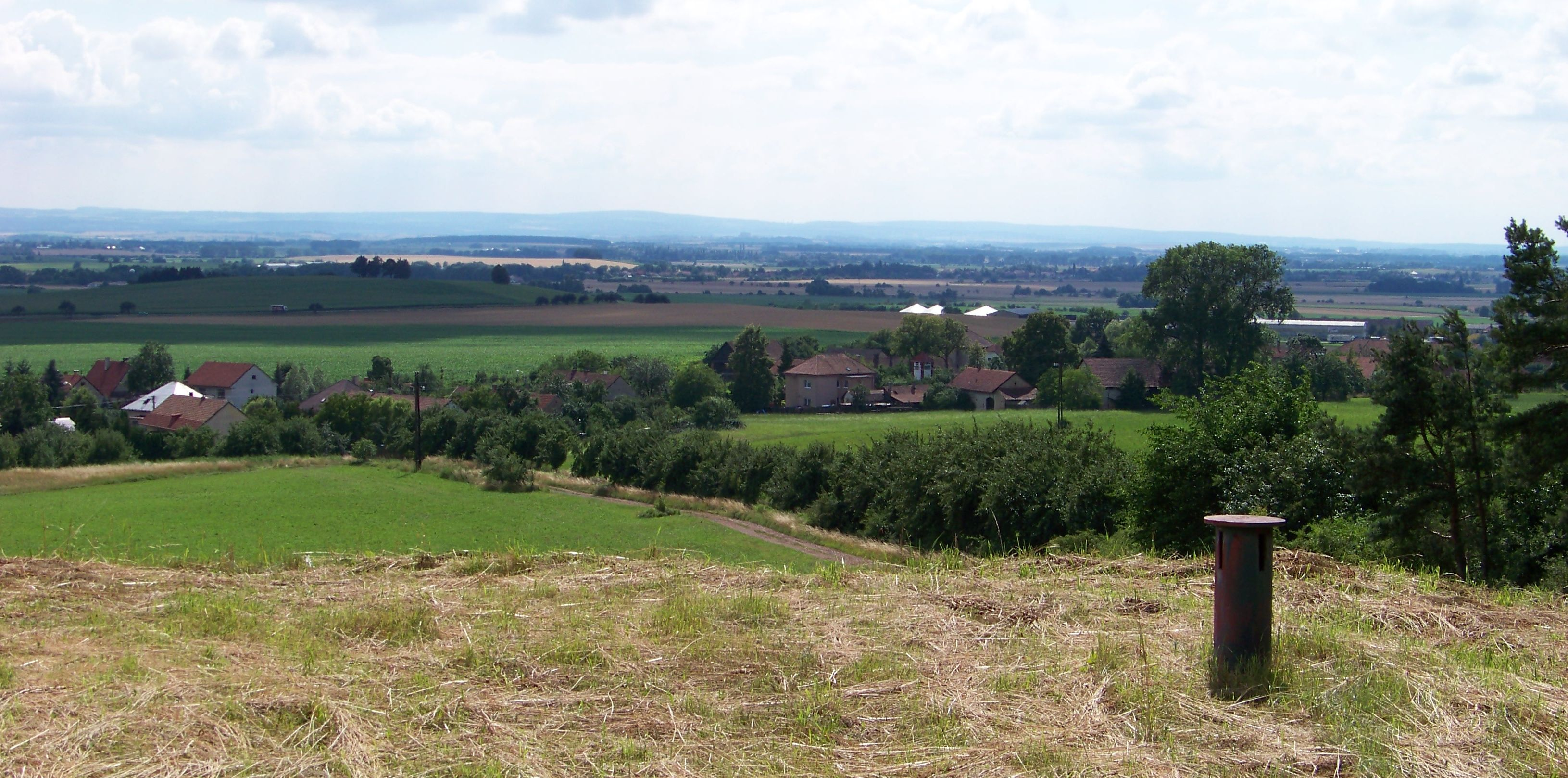 Ostřetín, Pardubice District, Pardubice Region, the Czech Republic. A view from Vinice hill.